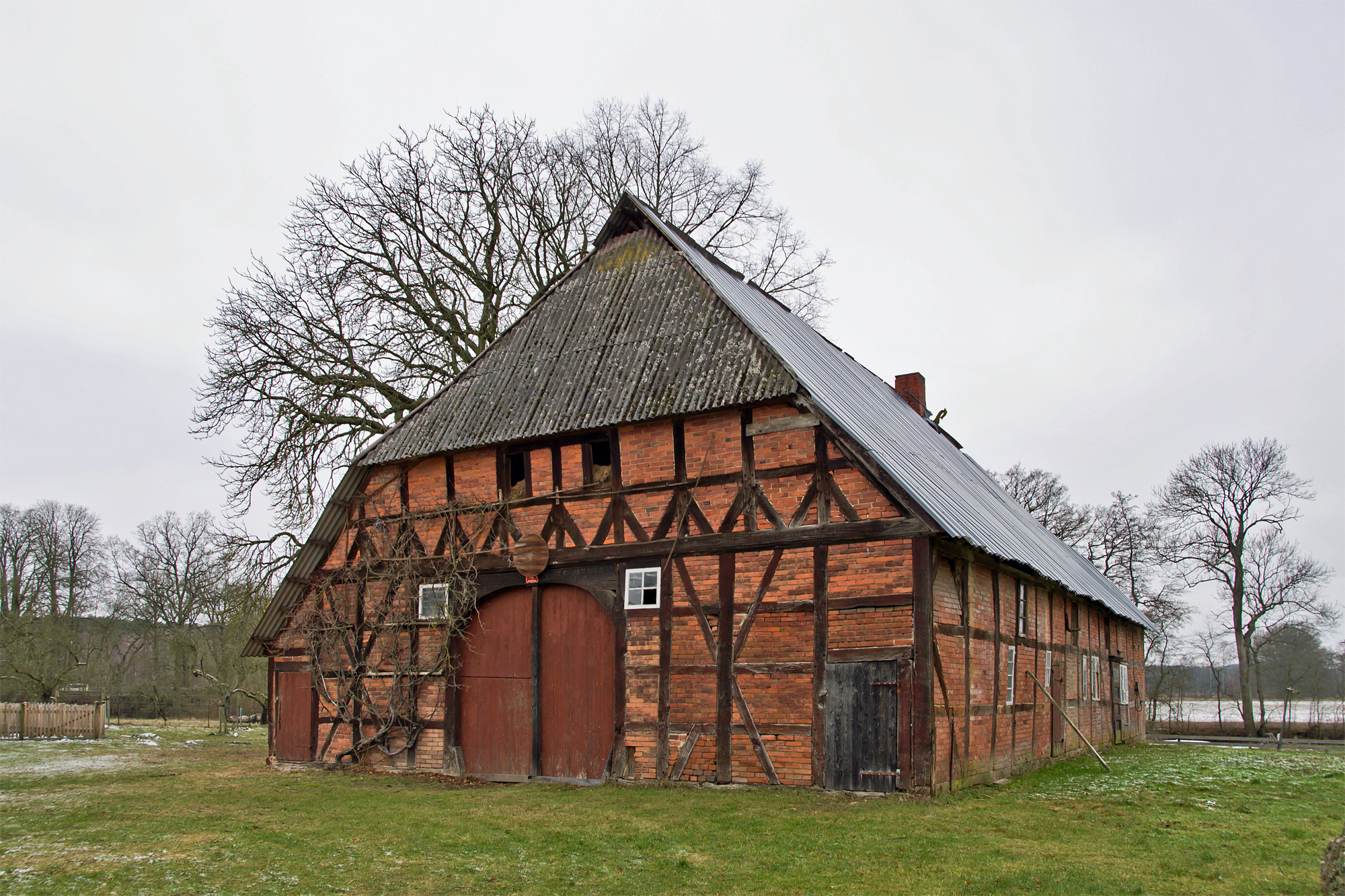 Cultural heritage monument "Heuweg 5" (former No 15) in the village Streetz near Dannenberg (Elbe), built in 1768.